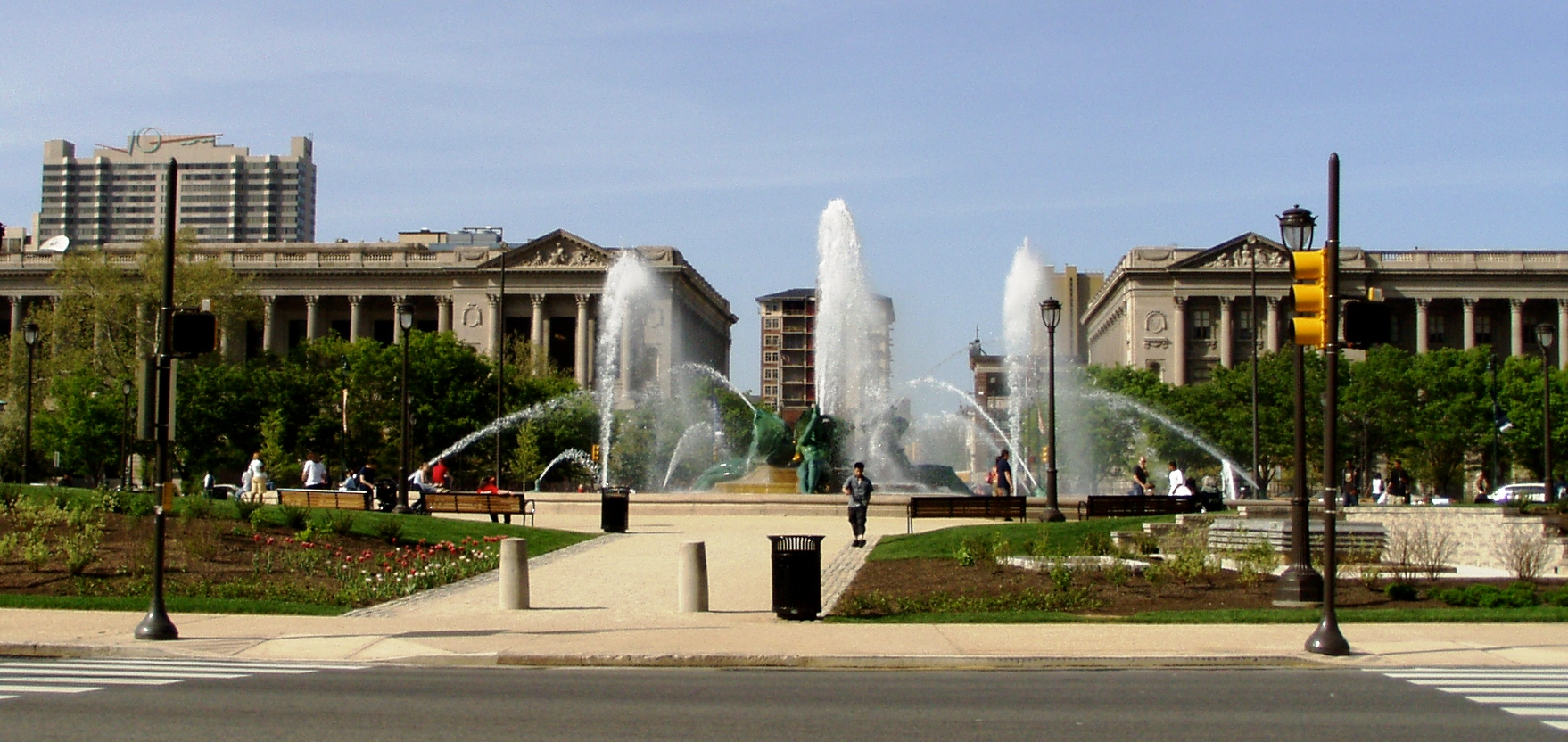 Taken in Philadelphia, Pennsylvania, in April 2006. Wikipedia:Logan Circle (Philadelphia), viewed from the south.